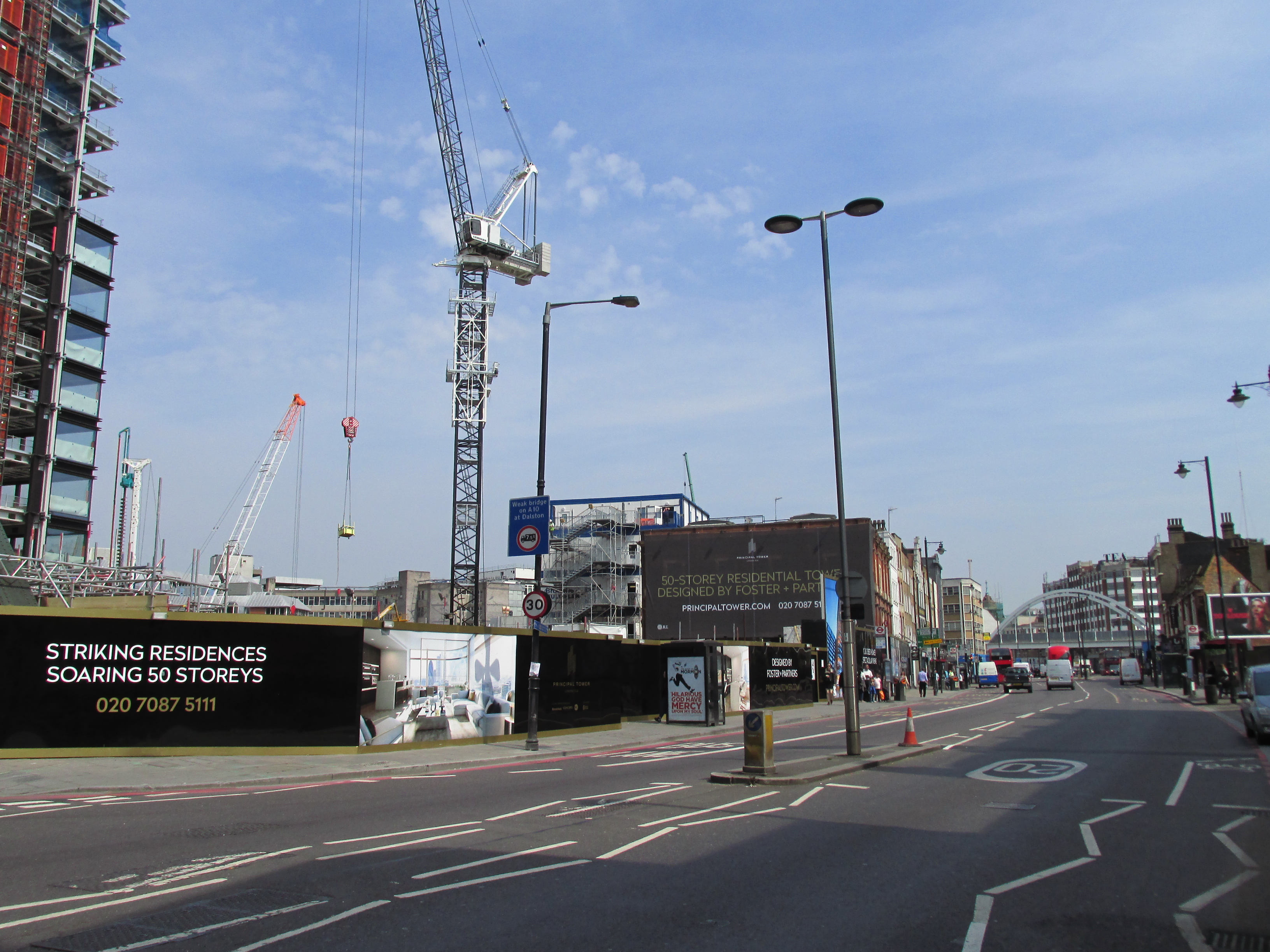 London June 7 2016 001 Principal Place Development Hackney (3)